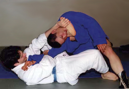 User-made image of gogoplata demonstration.